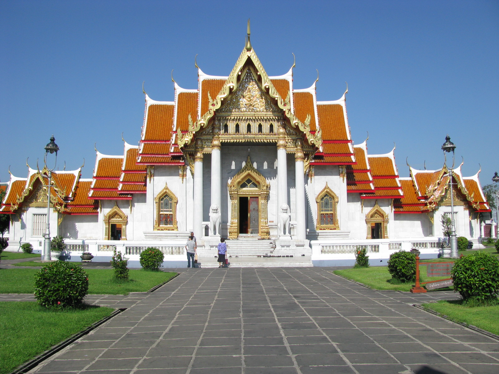 Wat Benchamabophit Dusitvanaram (Marble Temple) is Buddhist temple in Bangkok.